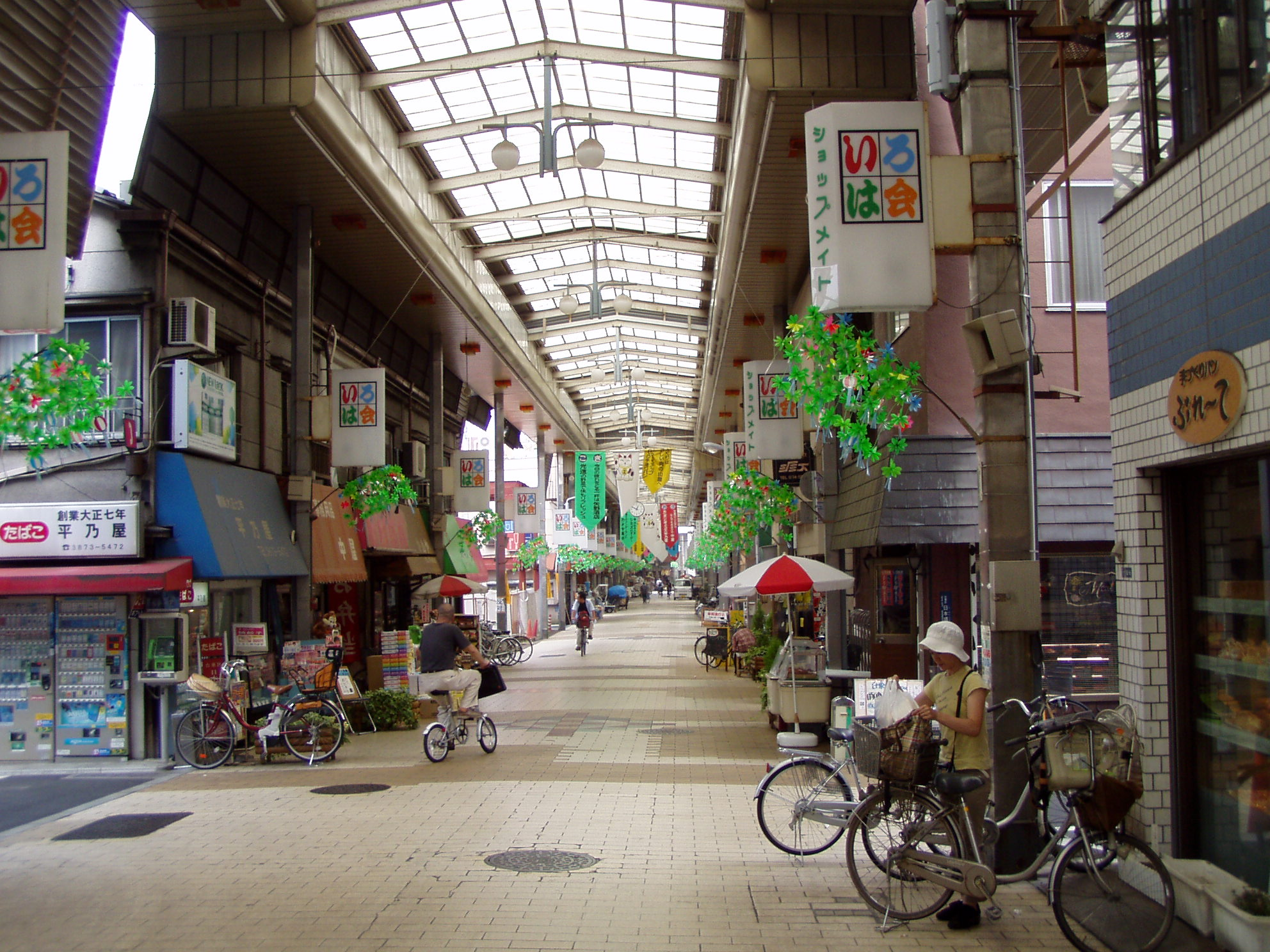 Tokyo. Shopping arcade in 台東区日本堤１